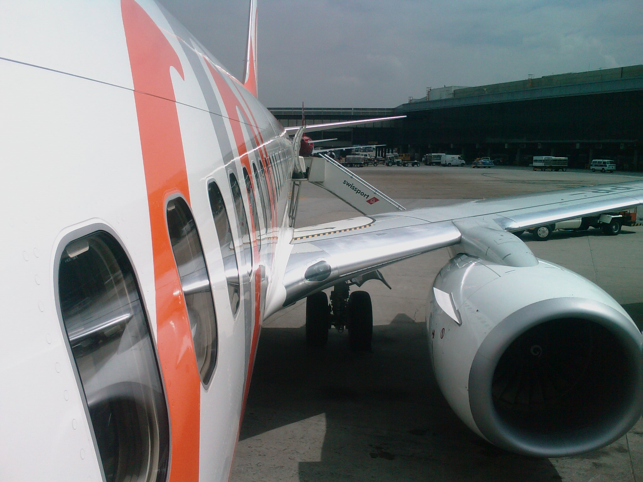 Right side of a 737-800 from Gol Linhas Aéreas